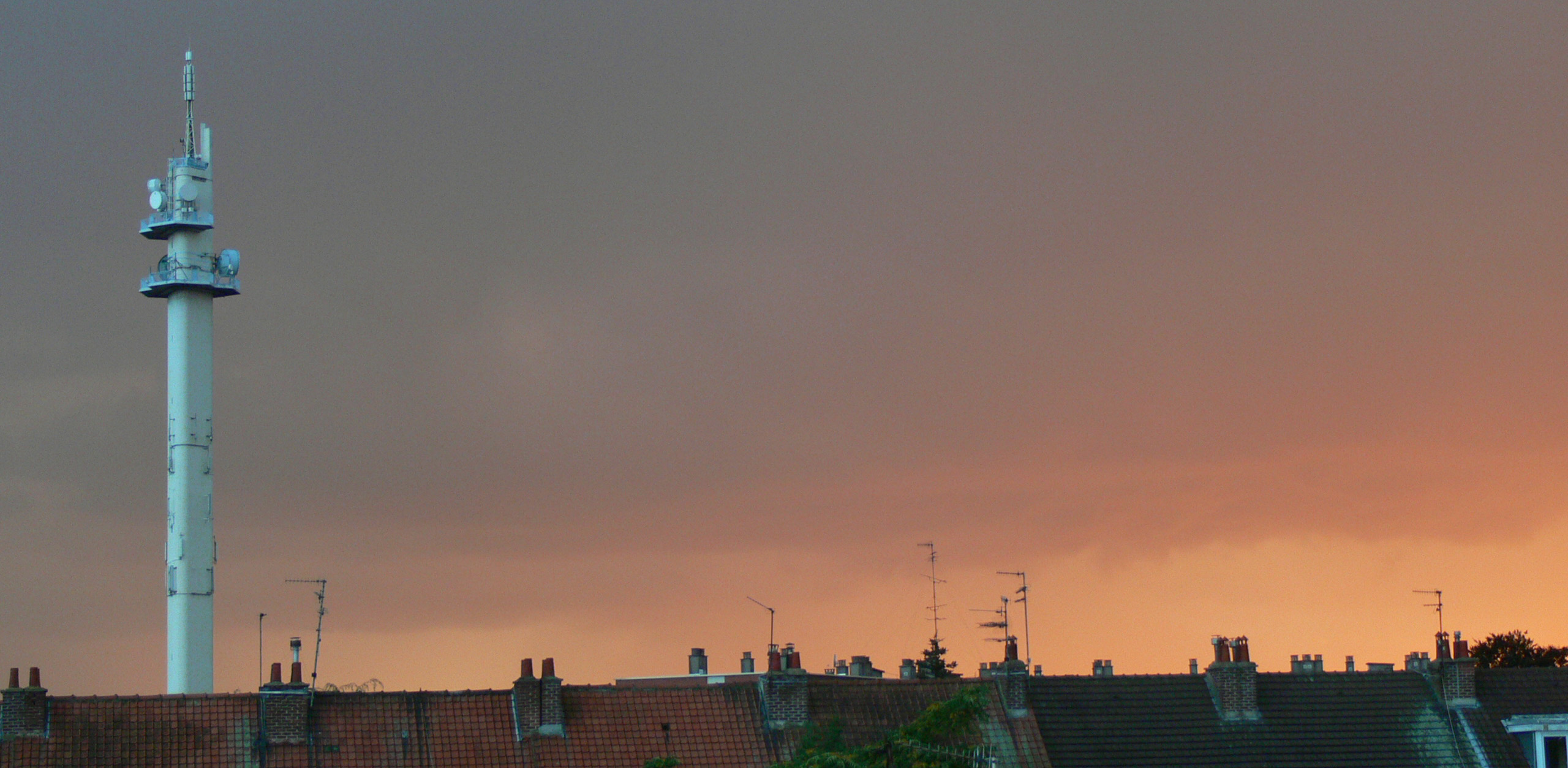 broadcasting station of Lambersart, near Lille, in the north of the France